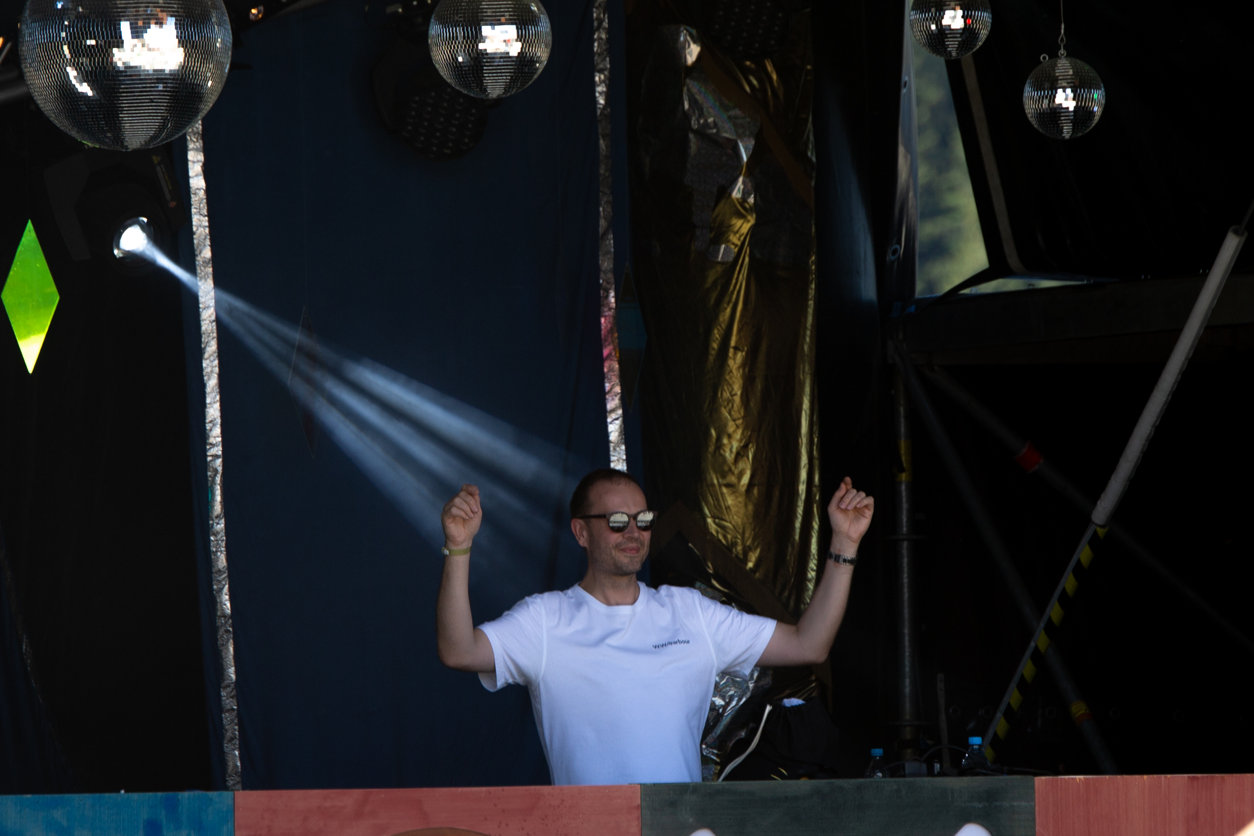 Gunjah at SonneMondSterne 2018, SMS.Beach: Katermukke